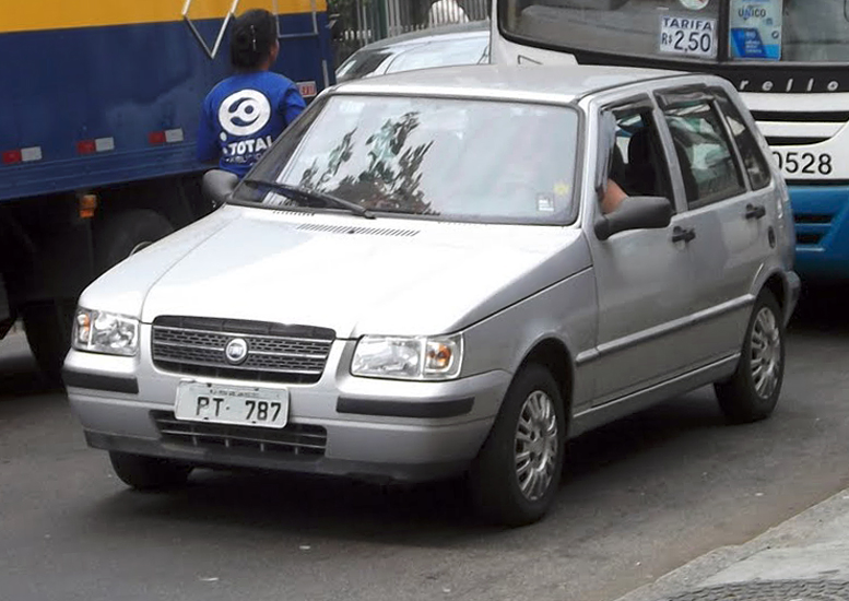 Brazilian-built Fiat Uno (late, facelifted version)